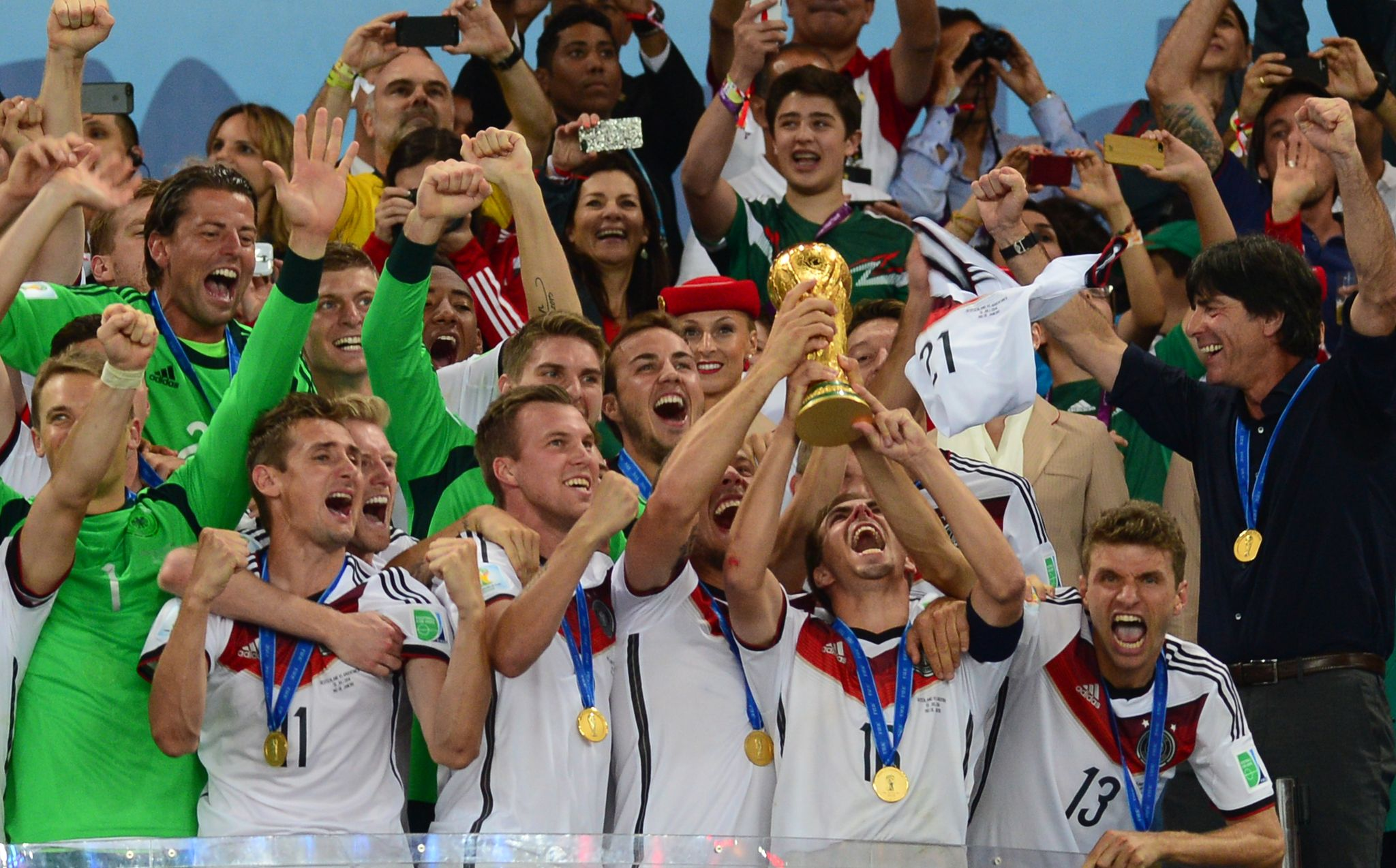 Germany wins it's 4th FIFA World Cup, after beating Argentina 1-0.